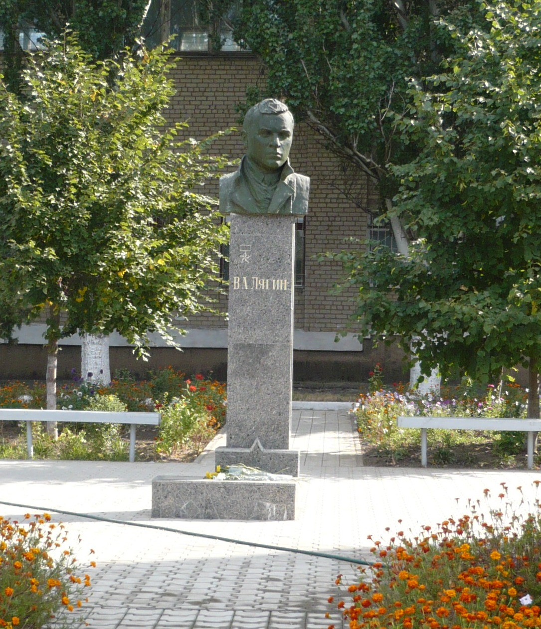 Monument to Victor Lyagin in Mykolayiv.